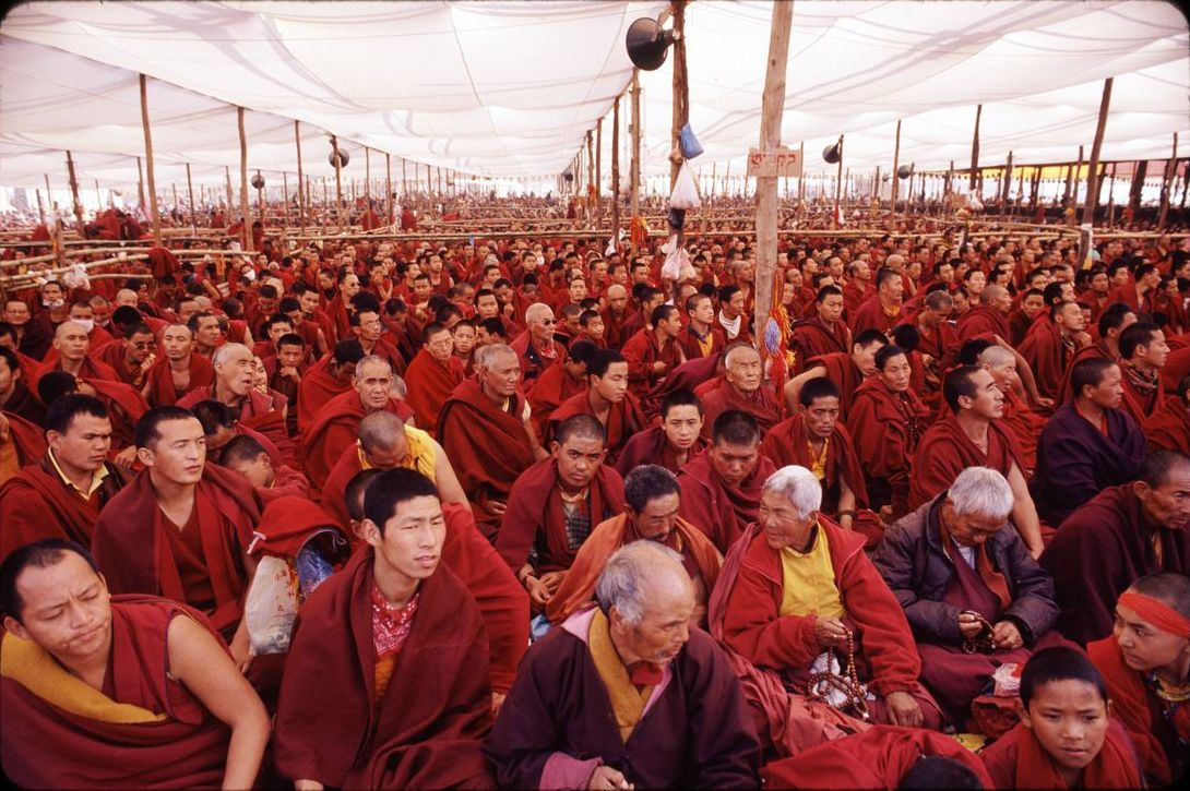 Joseph Morris (the uploader). Picture is of monks attending the 2003 Kalachakra in Bodhgaya, India.